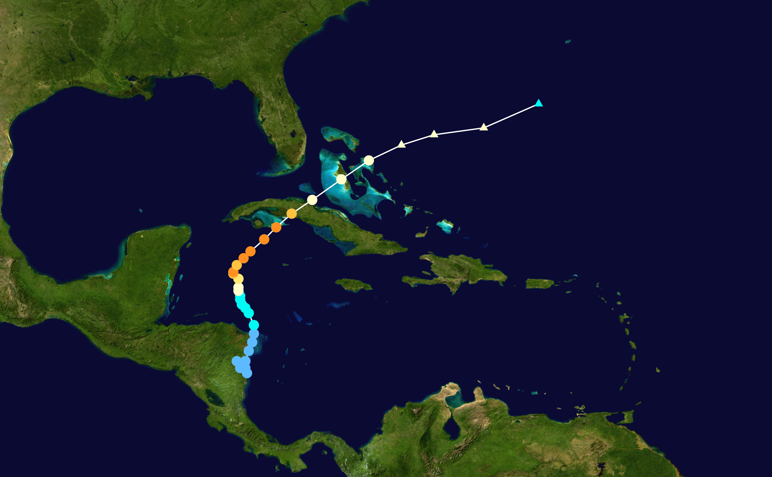 Track map of Hurricane Michelle of the 2001 Atlantic hurricane season. The points show the location of the storm at 6-hour intervals. The colour represents the storm's maximum sustained wind speeds as classified in the Saffir–Simpson scale (see below), and the shape of the data points represent the nature of the storm, according to the legend below. Saffir–Simpson scale Tropical depression≤38 mph≤62 km/h Category 3111–129 mph178–208 km/h Tropical storm39–73 mph63–118 km/h Category 4130–156 mph209–251 km/h Category 174–95 mph119–153 km/h Category 5≥157 mph≥252 km/h Category 296–110 mph154–177 km/h Unknown Storm type Tropical cyclone Subtropical cyclone Extratropical cyclone / Remnant low / Tropical disturbance / Monsoon depression